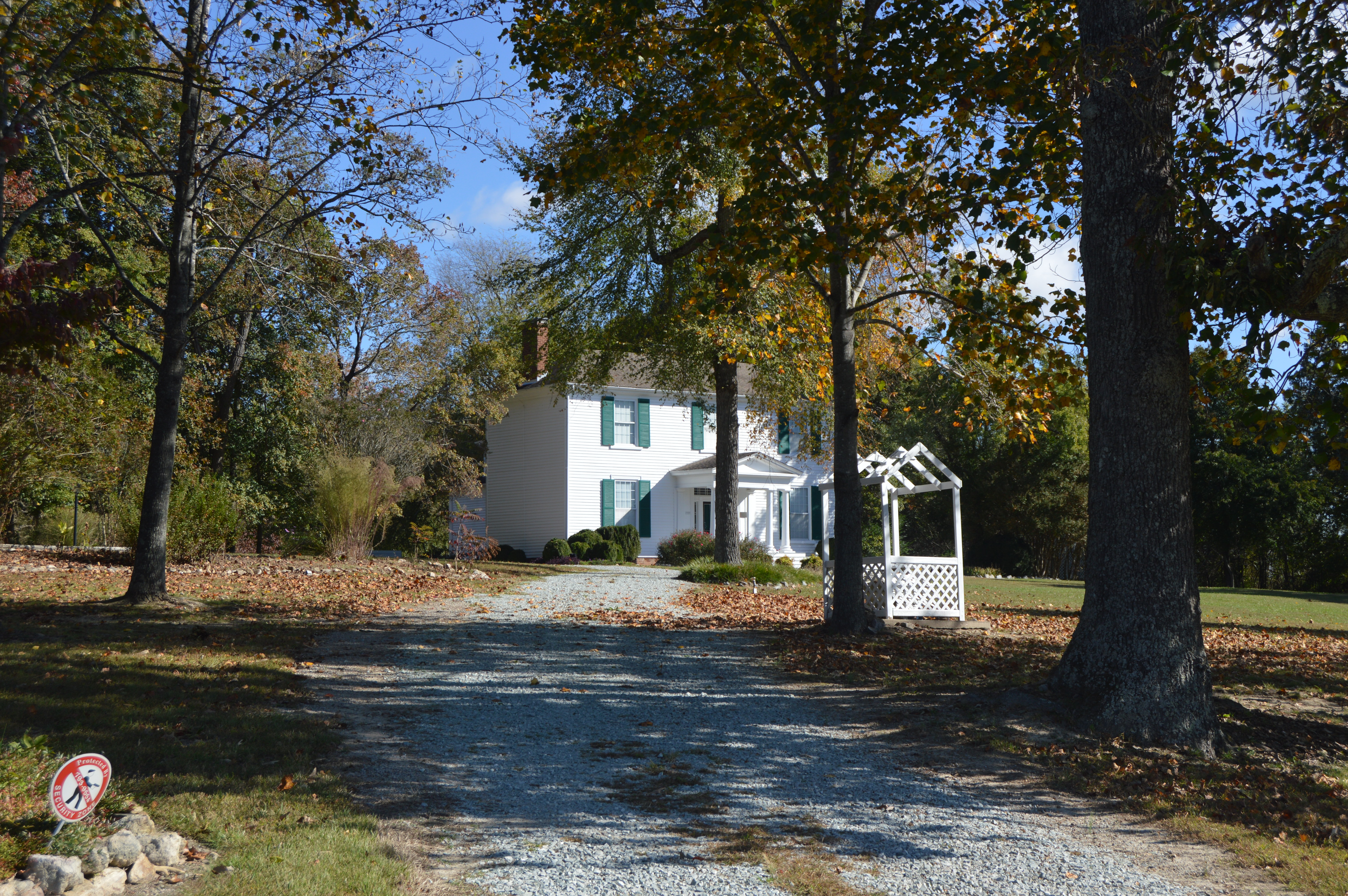 Driveway view of Woodside, located on North Carolina Highway 57 east of Milton in Caswell County, North Carolina, United States. Built in 1836, it is listed on the National Register of Historic Places.